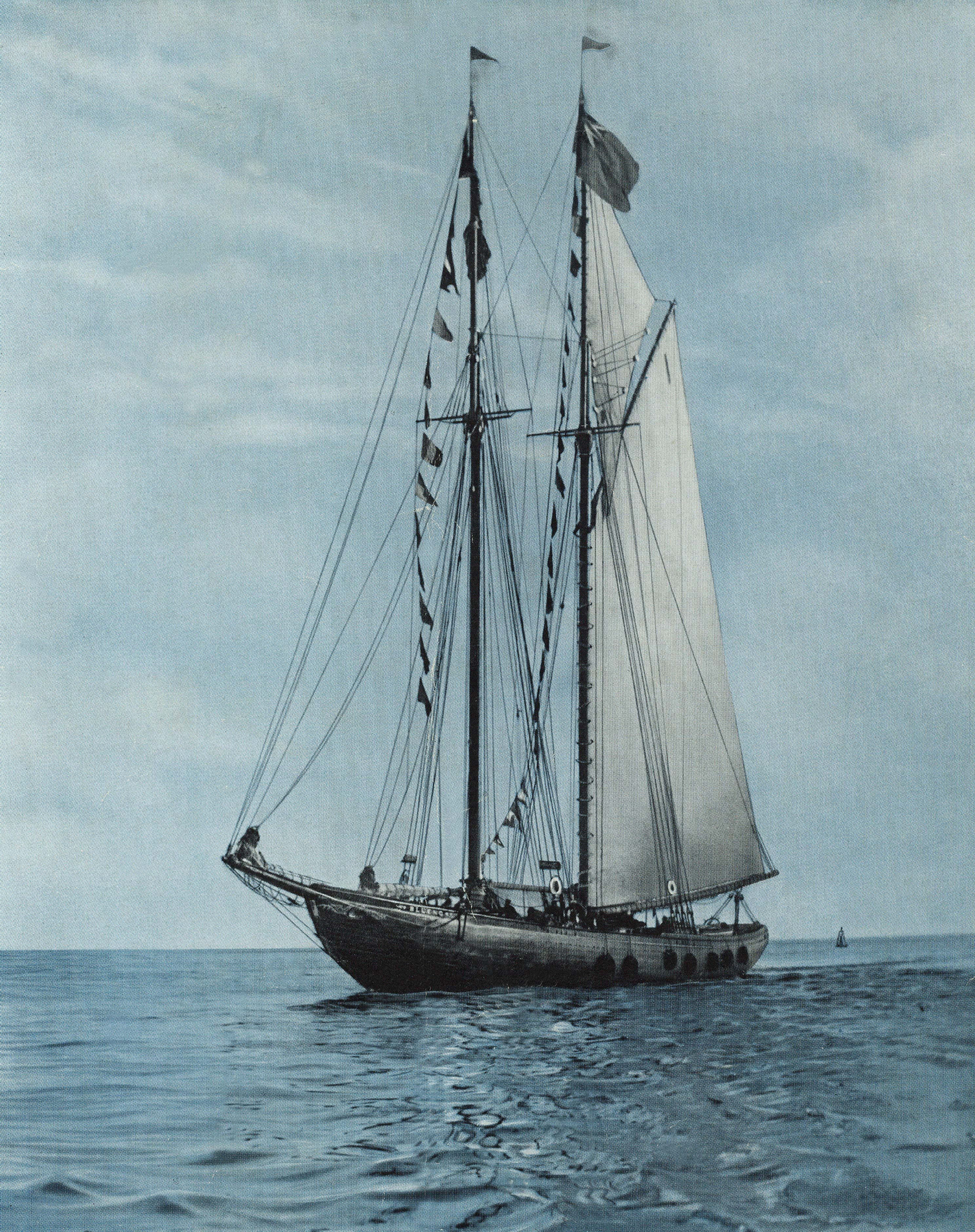 The famous Bluenose (colourized photograph).